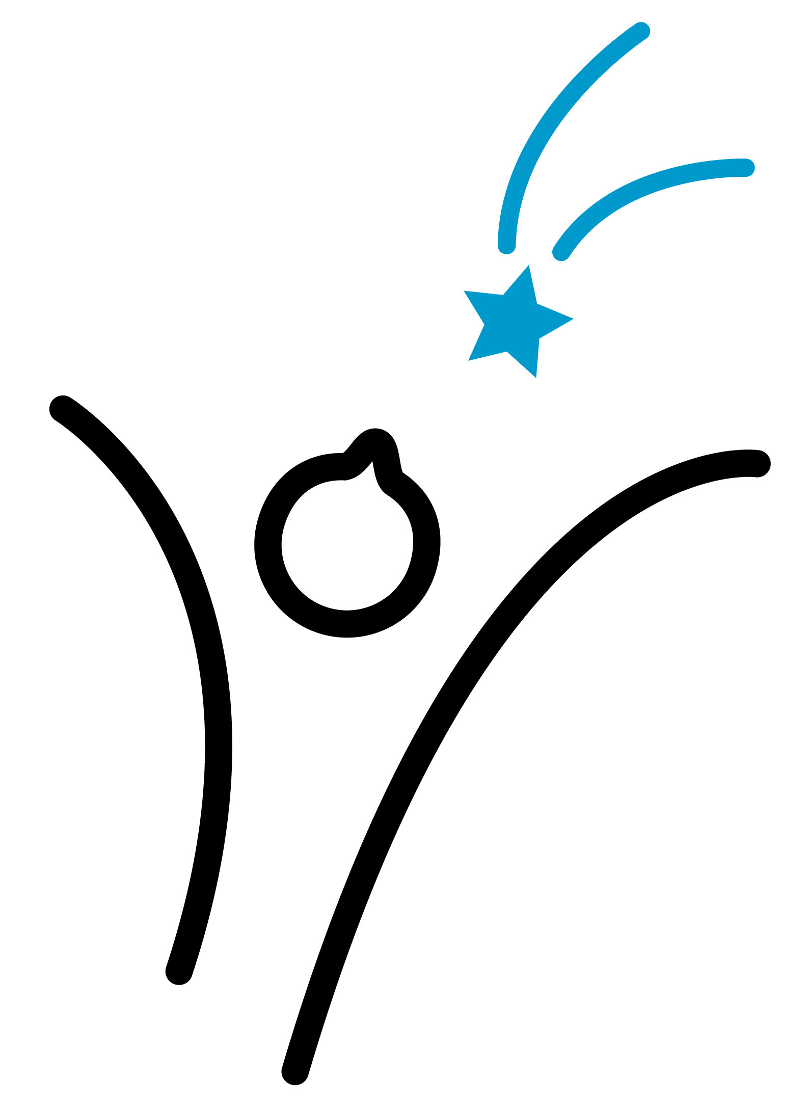 Catch a Star is a contest organised as a collaboration between the European Association for Astronomy Education (EAAE) and ESO. Its goal is to stimulate the creativity and independent work of students, to strengthen and expand their astronomical knowledge and skills.